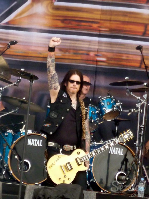 Ricky Warwick (foreground) and Brian Downey of the band Thin Lizzy, performing 10 June 2011 at the Download Festival, Donington Park, central England.